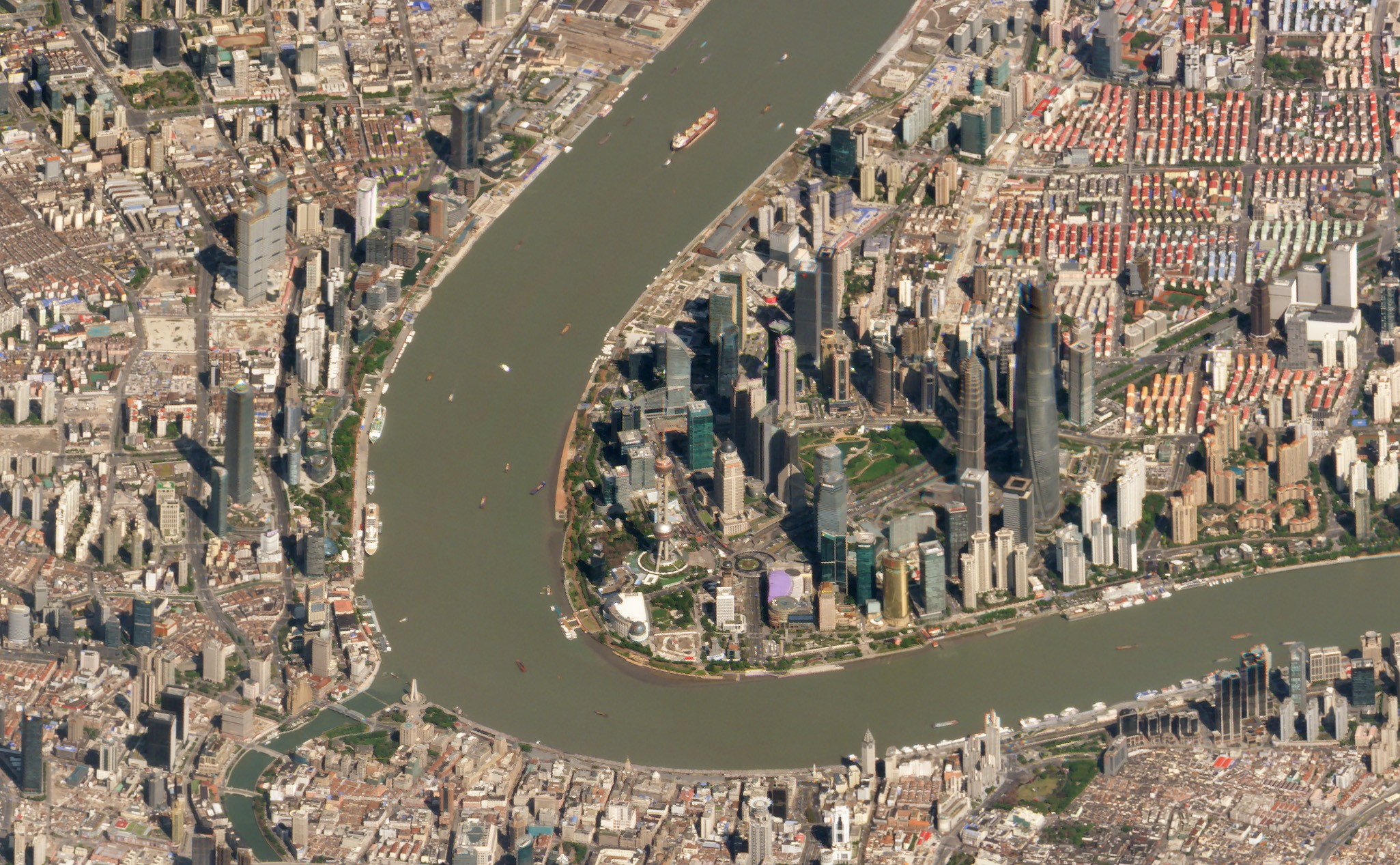 SkySat satellite image of Shanghai, China's Pudong district.